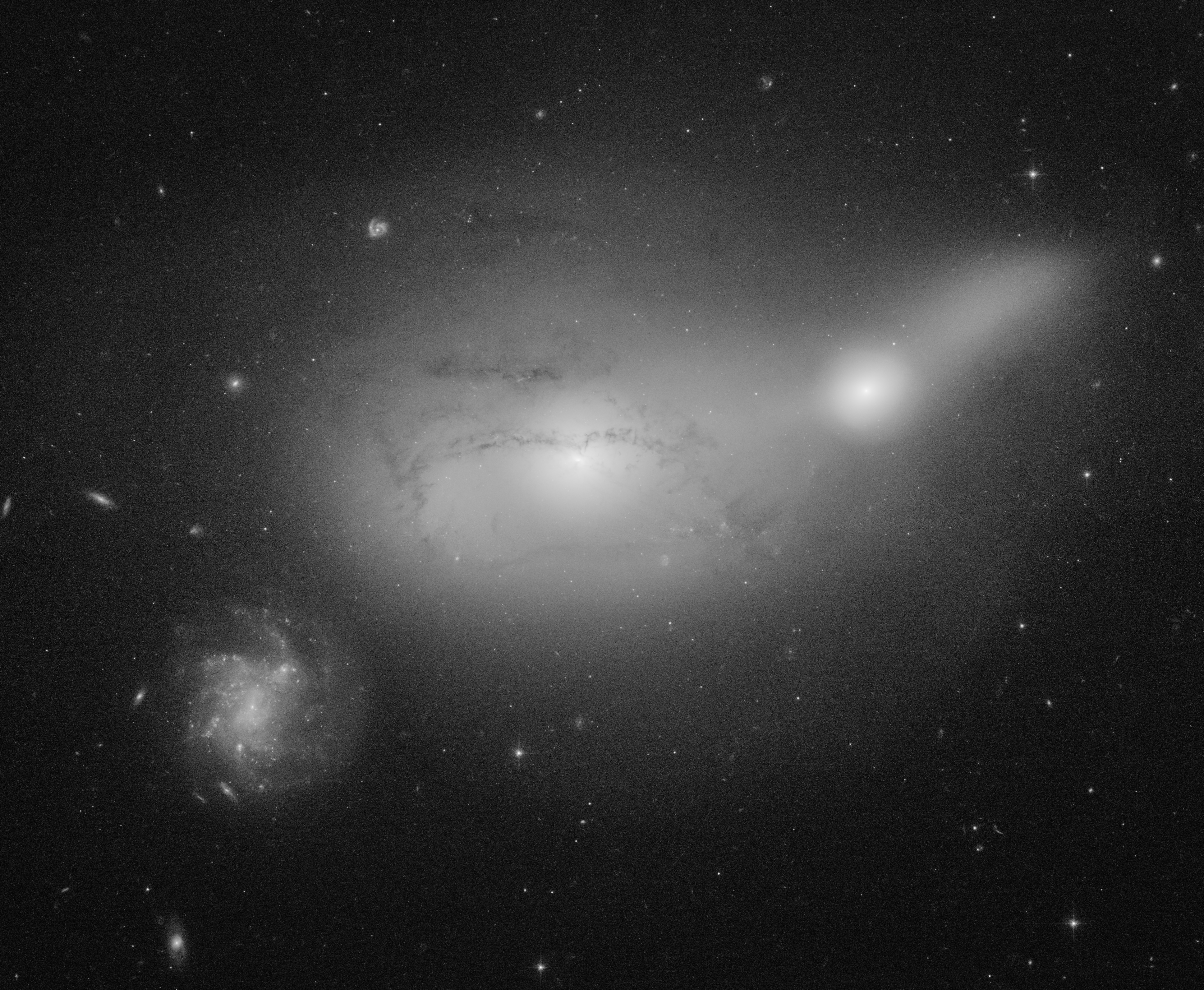 Sometimes life is just unbearably sad... and I can't do much but look at galaxies. Data from the following proposal is used to create this image: Establishing HST's Low Redshift Archive of Interacting Systems All channels: ACS/WFC F606W North is 56.11° counter-clockwise from up.